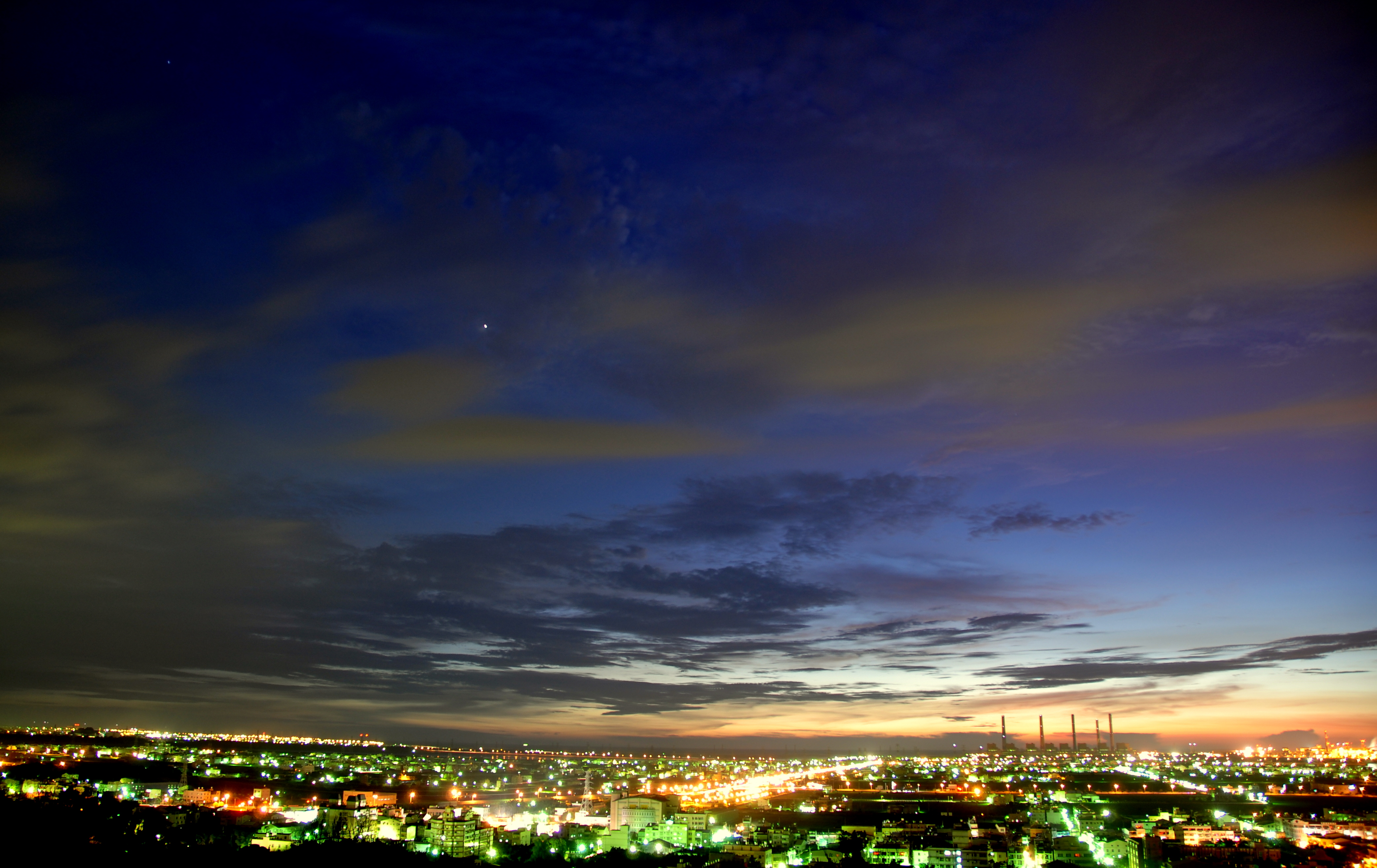 The Longjing township evening at nightfall west side nighttime sky Venus is shining upon.